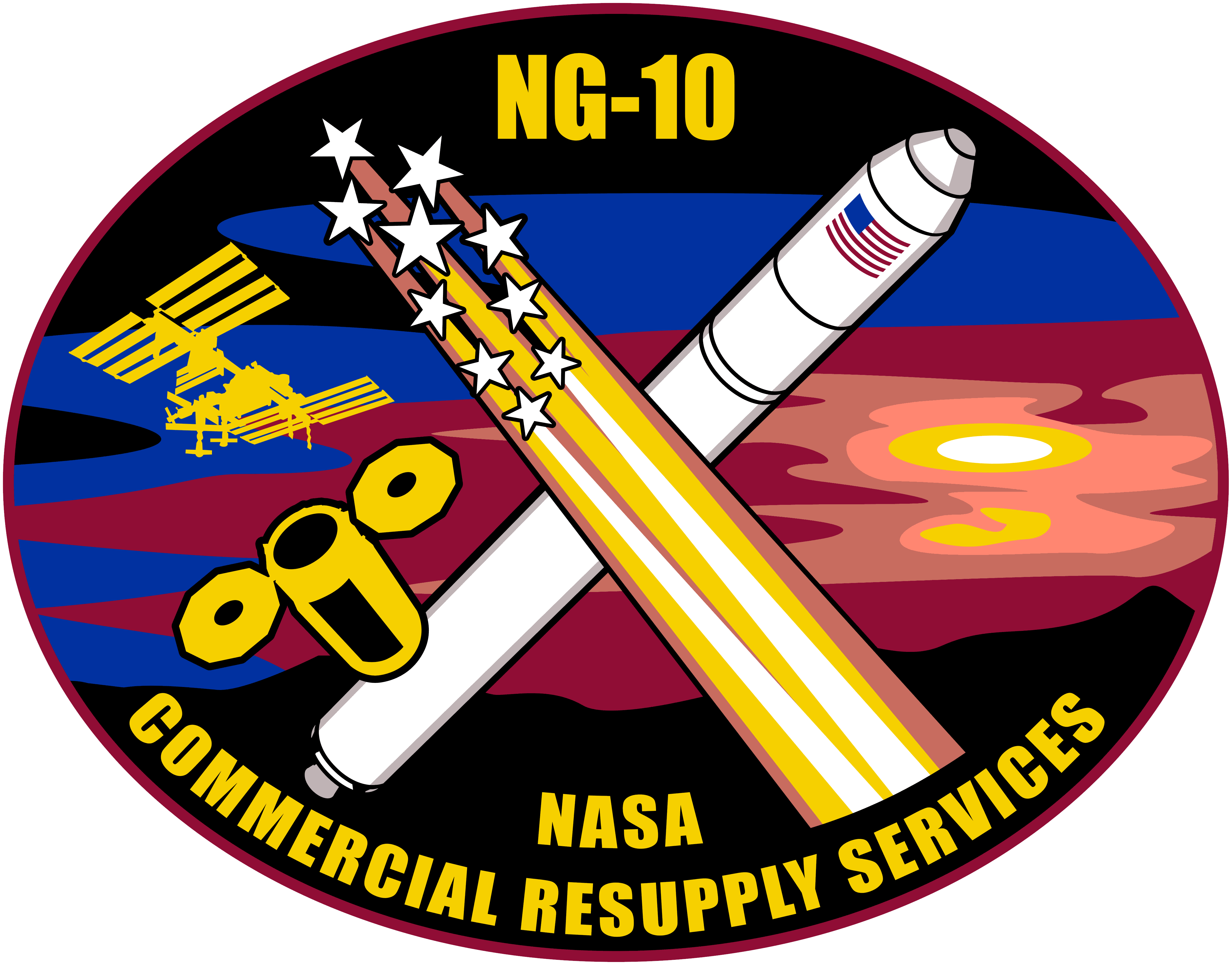 NASA insignia for Orbital ATK's OA-10E resupply flight